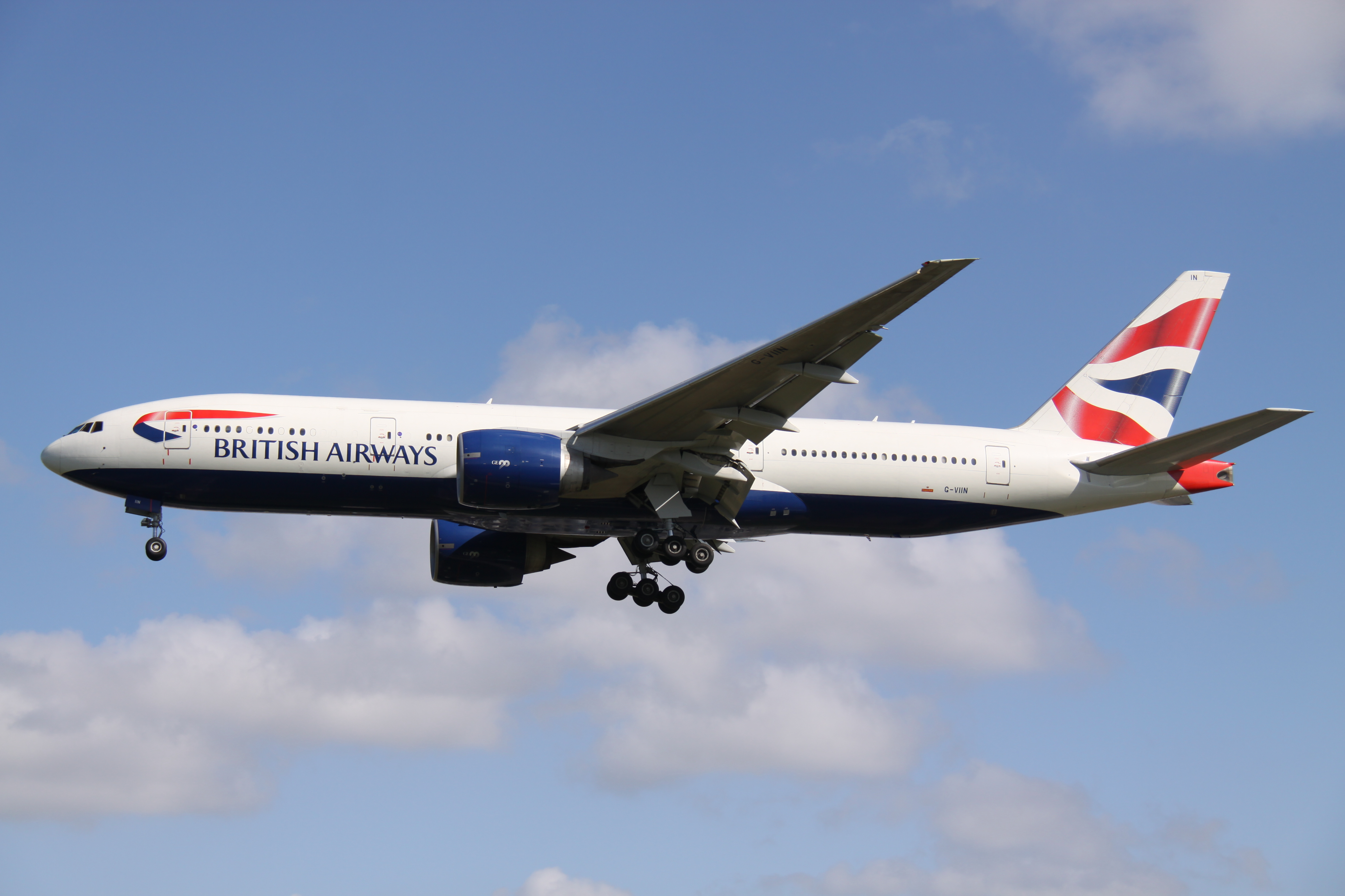 At London Heathrow